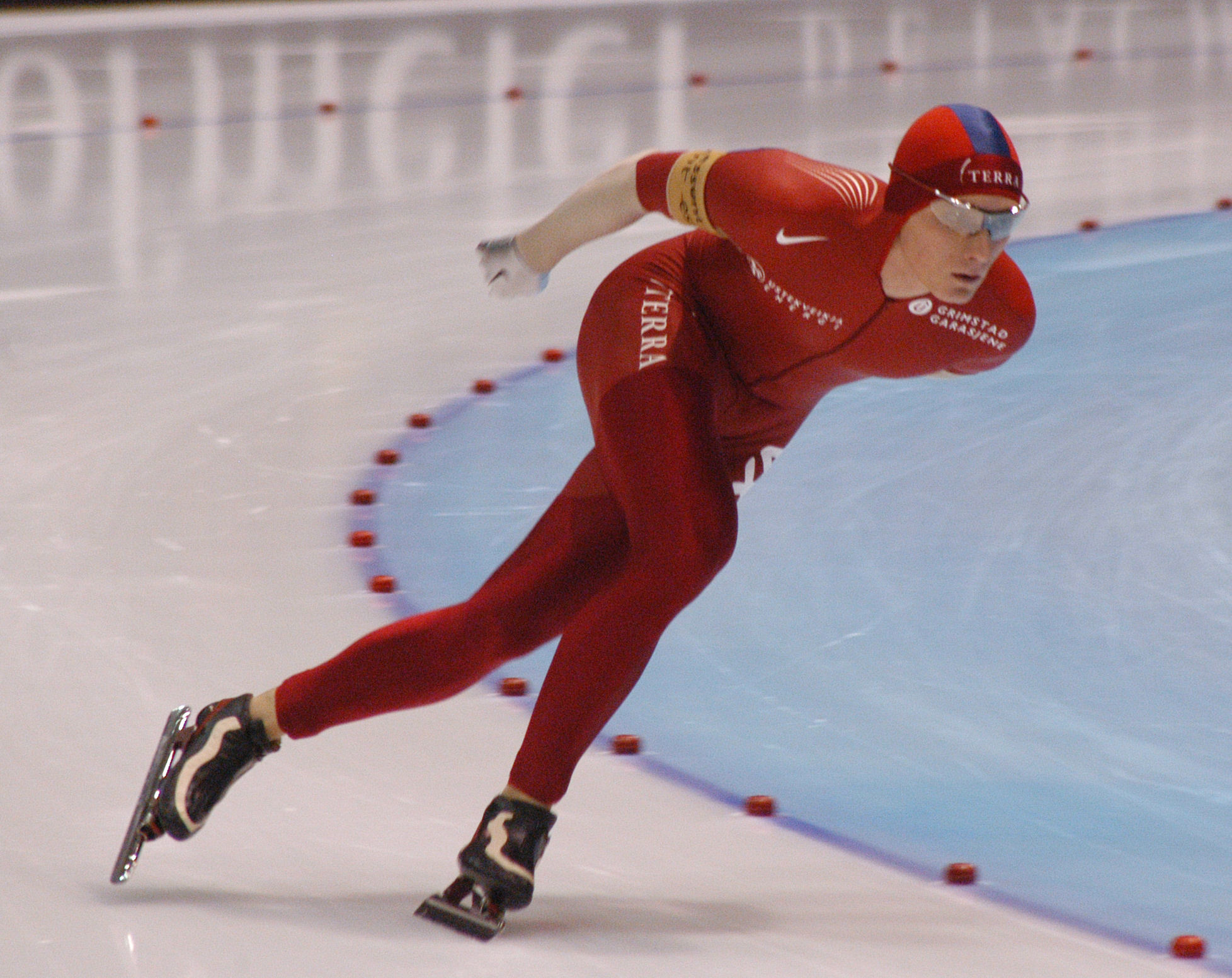 Håvard Bøkko (NOR) in action at a World Cup Speedskating in Heerenveen, the Netherlands.